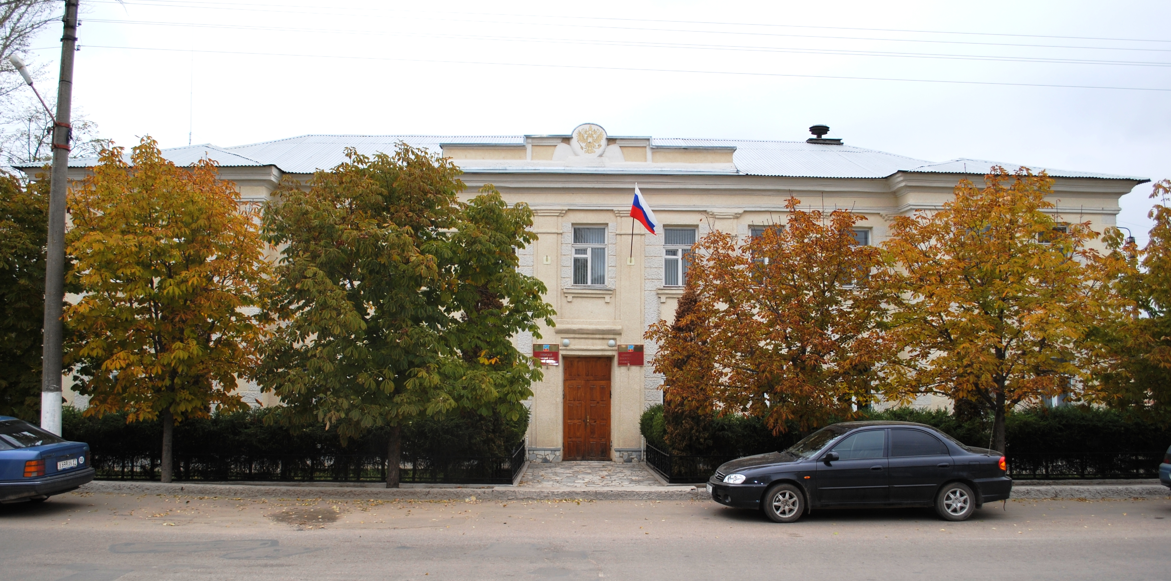 Livny rayon